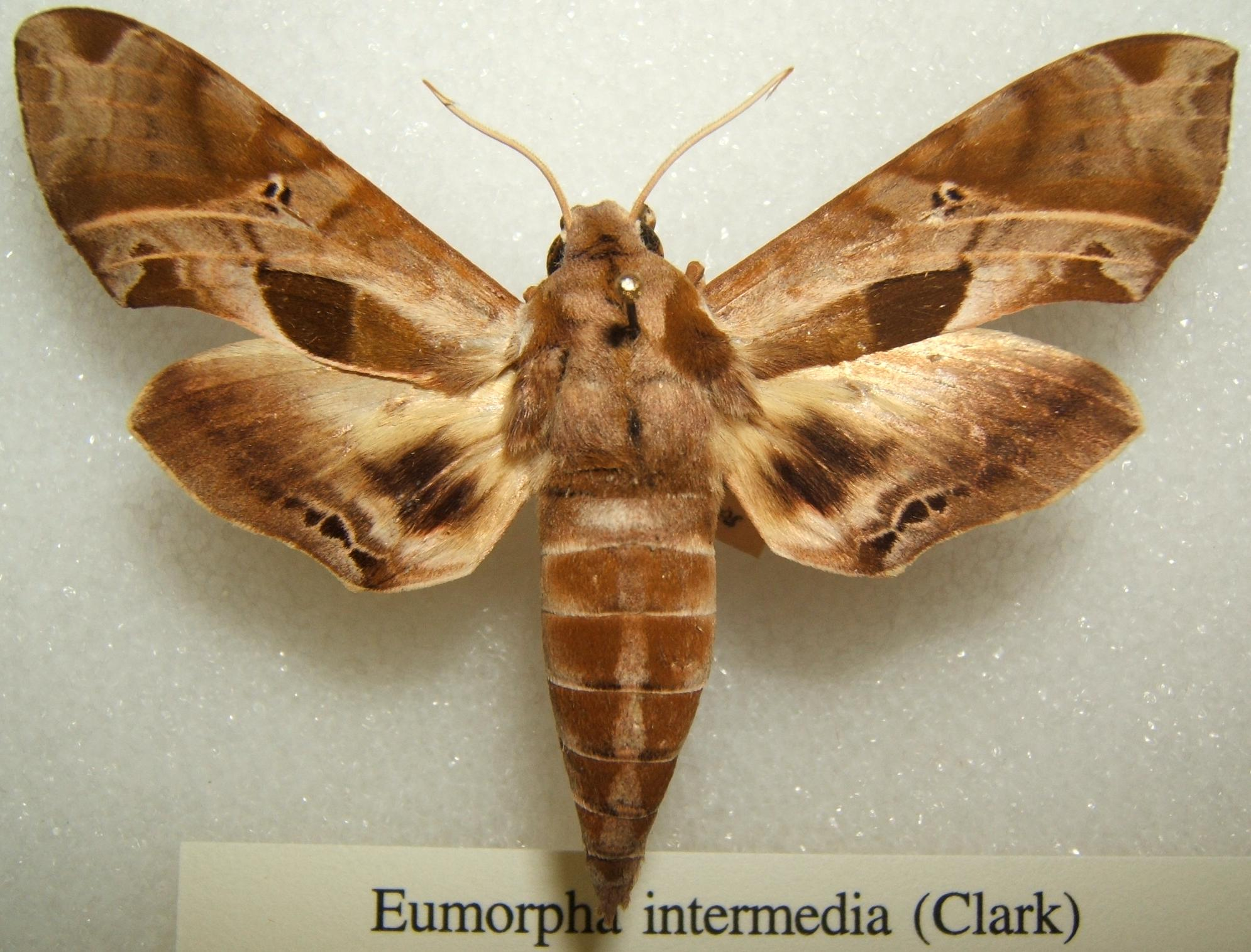 Eumorpha intermedia adult taken by Shawn Hanrahan at the Texas A&M University Insect Collection in College Station, Texas.